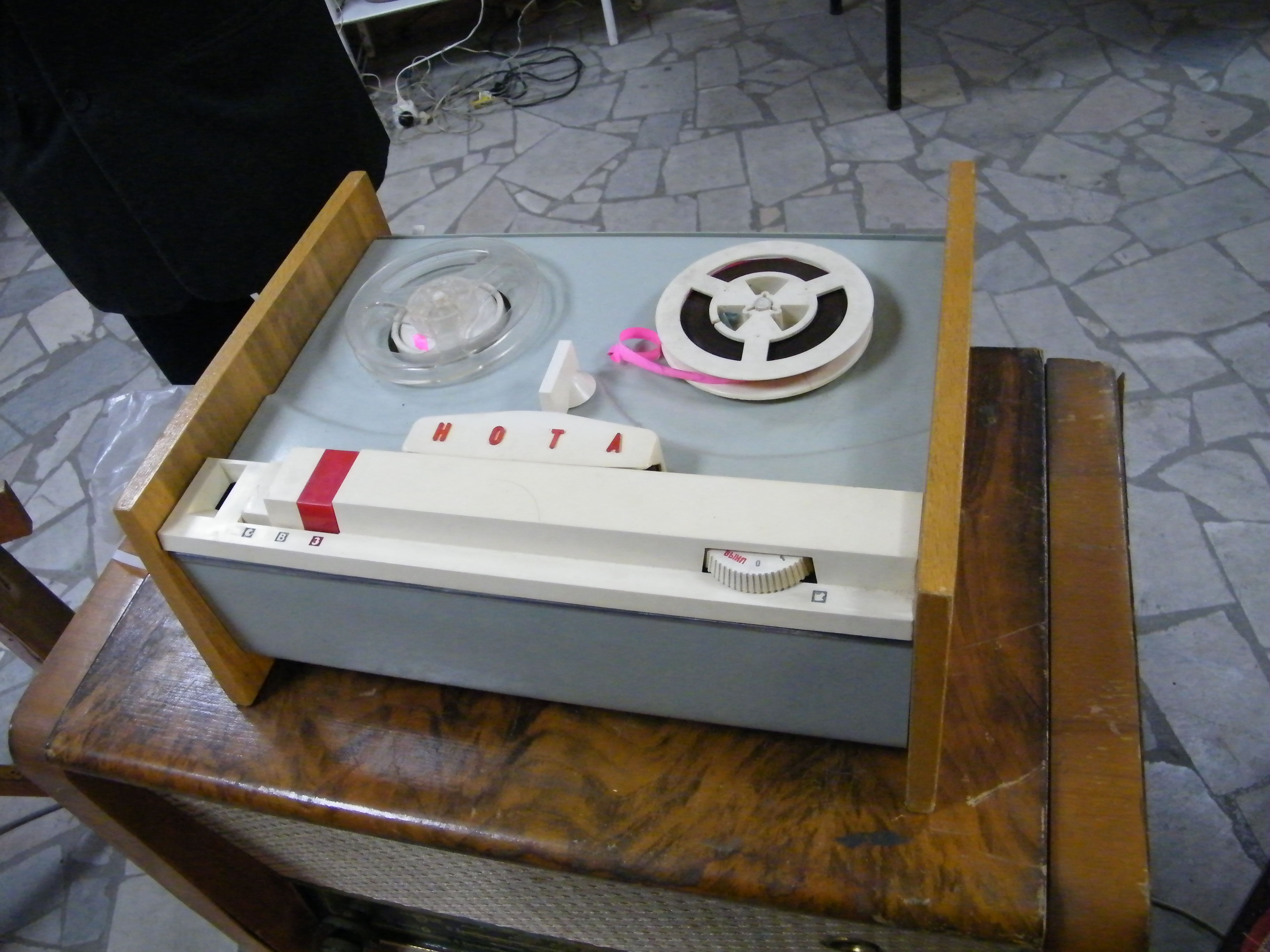 Nota tape deck, two-track, one-speed, mono. USSR, 1966